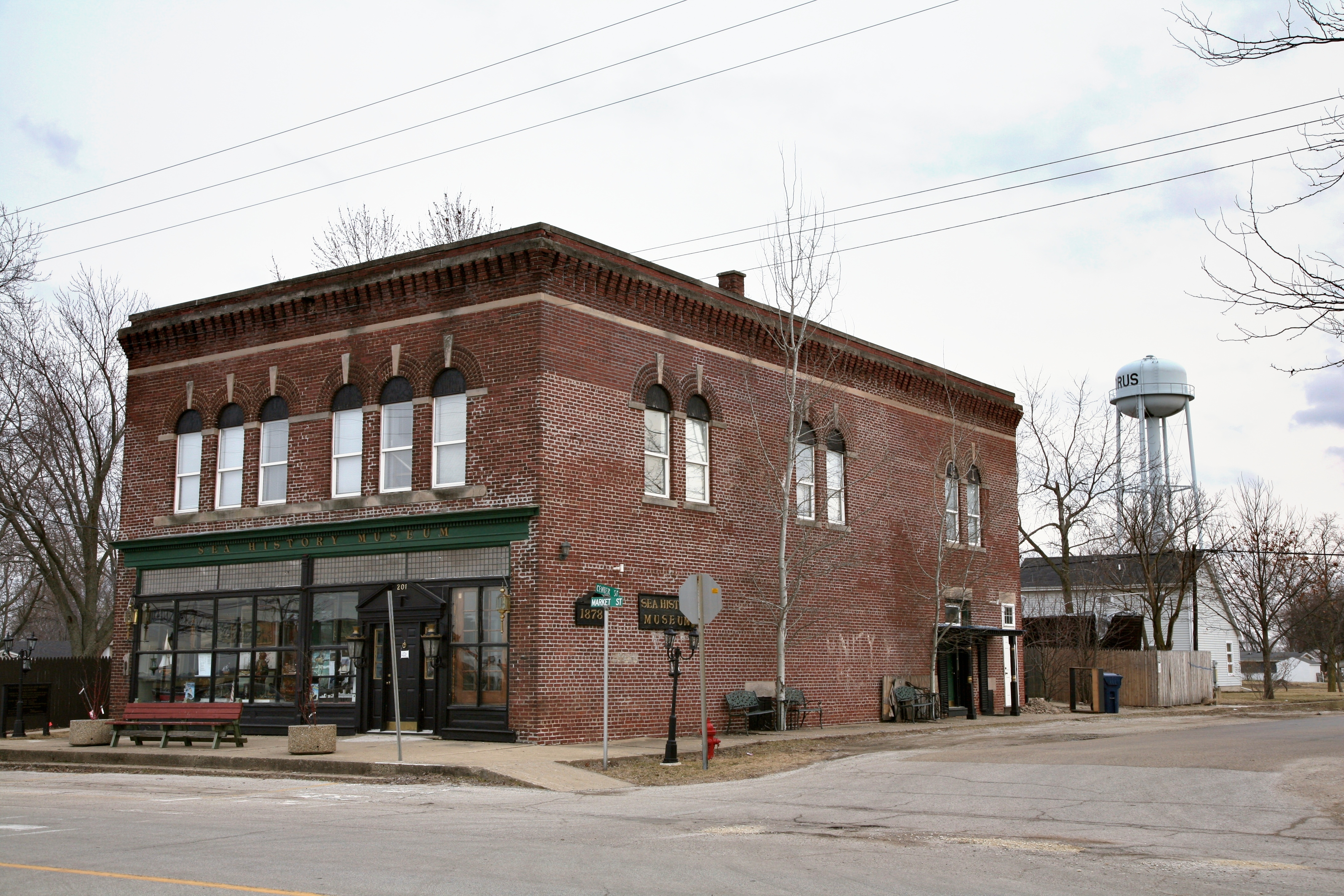 Sea History Museum, opening in fall'08, Sardorus, Illinois, USA